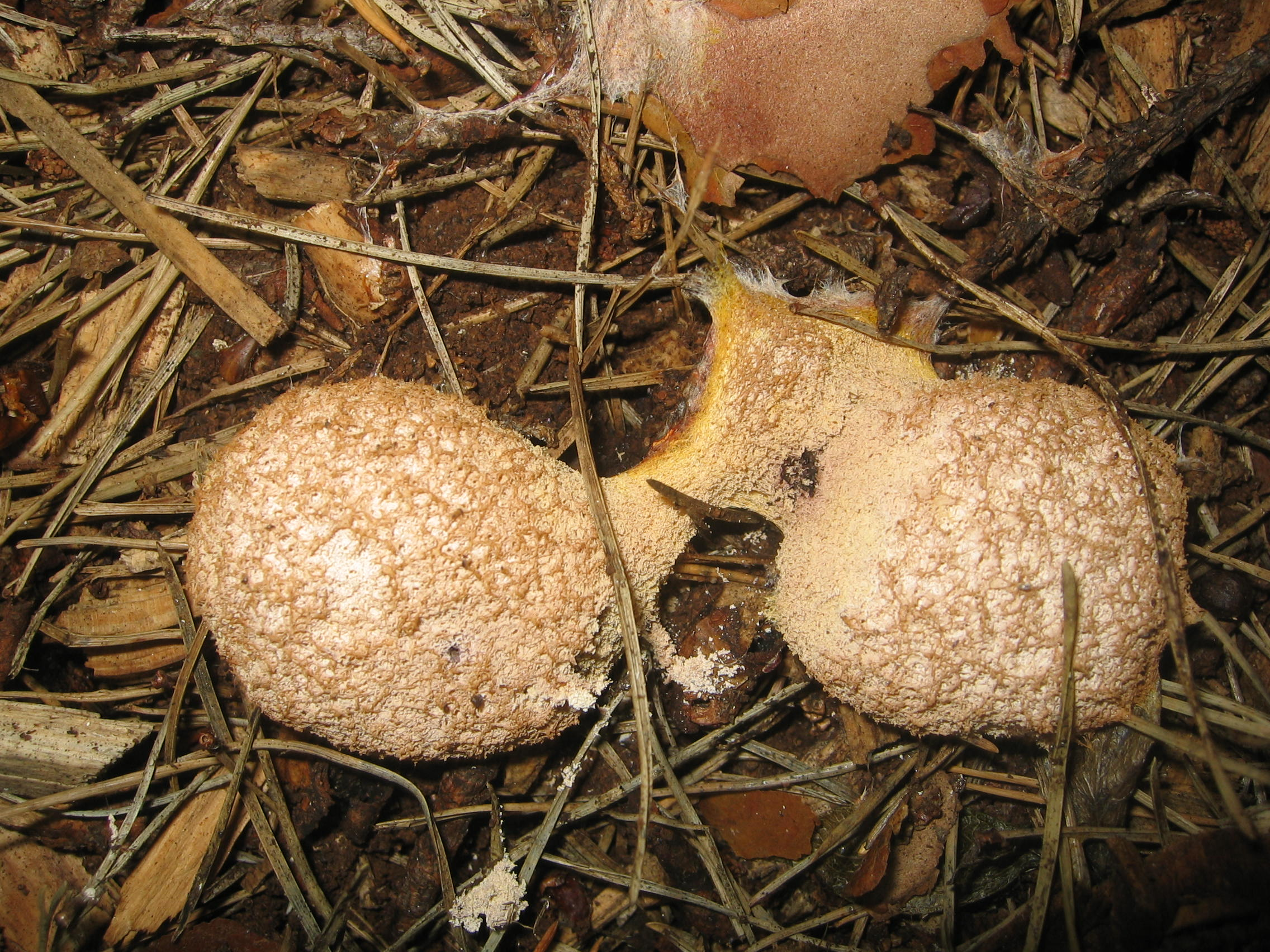 Yellow slime mould, Fuligo rufa, (Myxogastria)